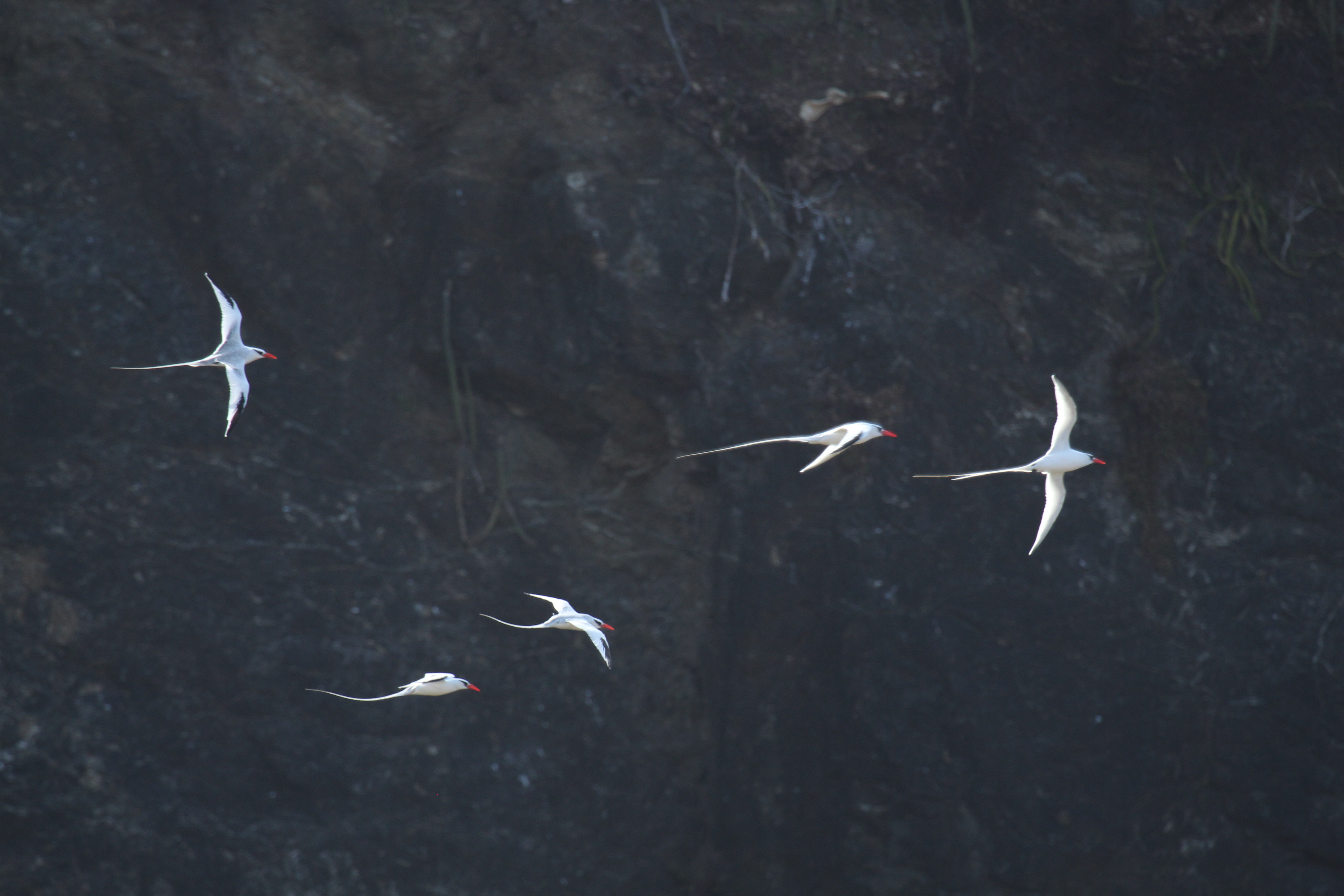 Off Little Tobago